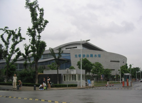 Wuxi swimming stadium 中文（中国大陆）: 无锡游泳馆